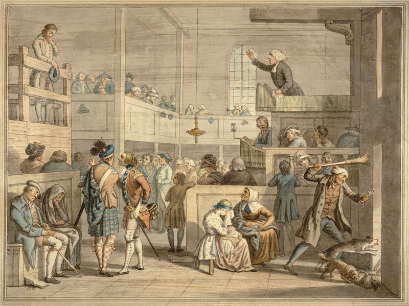 The Black Stool, or Stool of Repentance, by David Allan (1744-96). A young bachelor is accused of fornication. The luckless lass, seen with her angry mother in the lower foreground, bewails her fate, while his parents on the left hang their heads in shame.